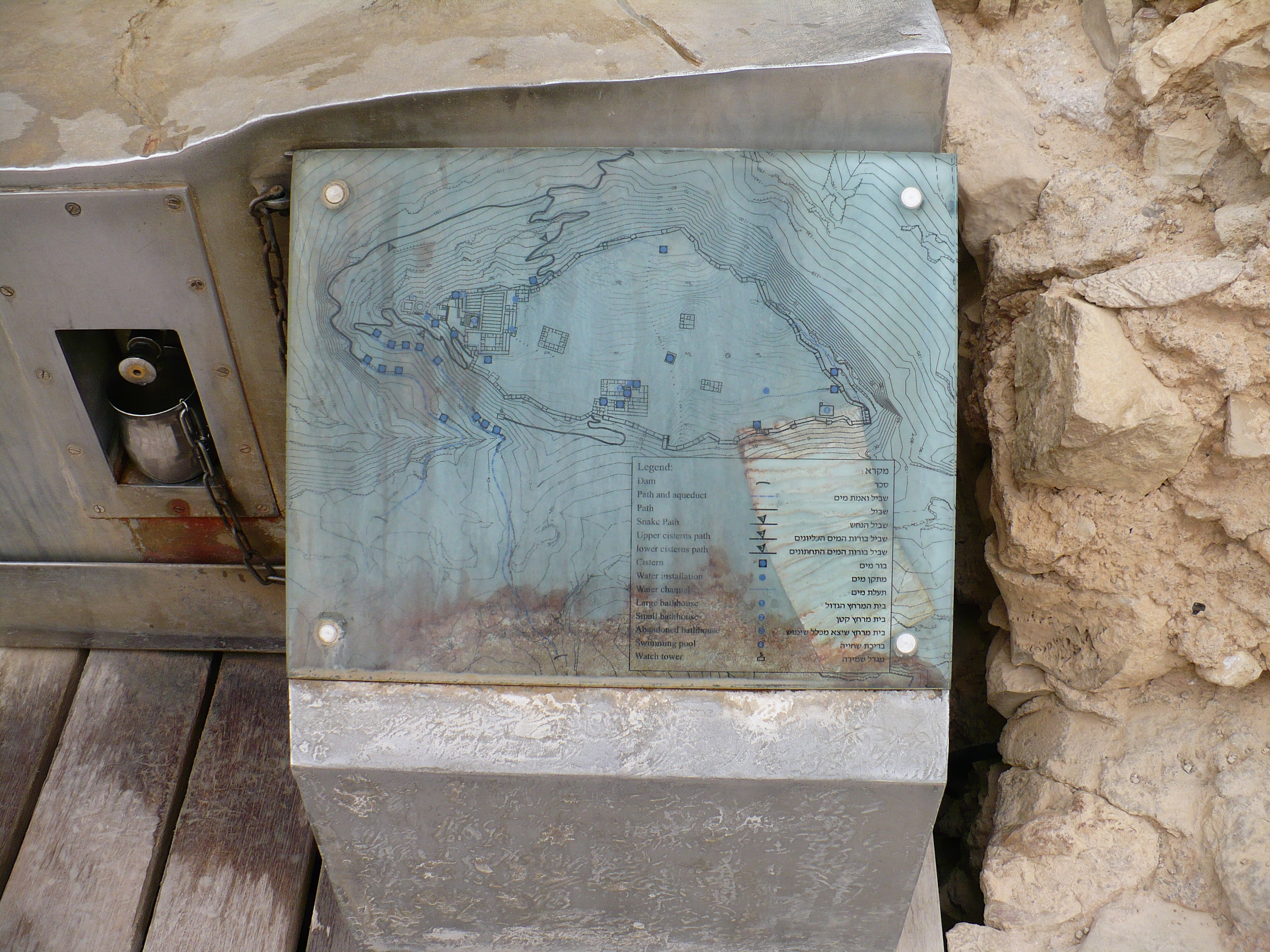 Masada water plan